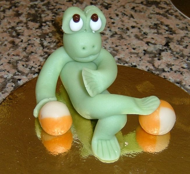 Marzipan frog, made by one of the chefs at the Cordon Bleu School in Paris in August 2004. Photo taken by Musical Linguist.